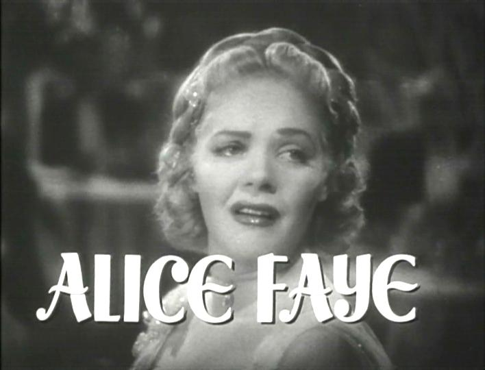 Screenshot of Alice Faye from the trailer for the film Alexander's Ragtime Band